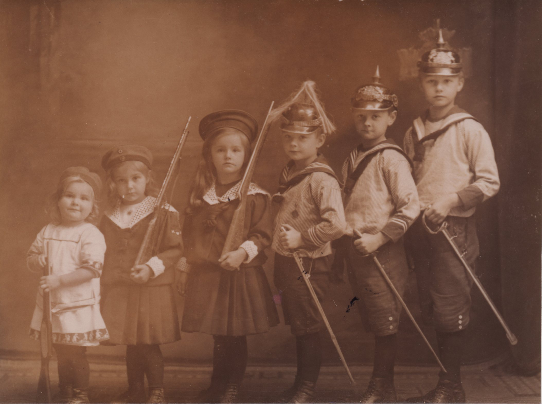 Siblings of Gottfried & Luise Dauner (son Gottfried born 1908 is 2nd from right)